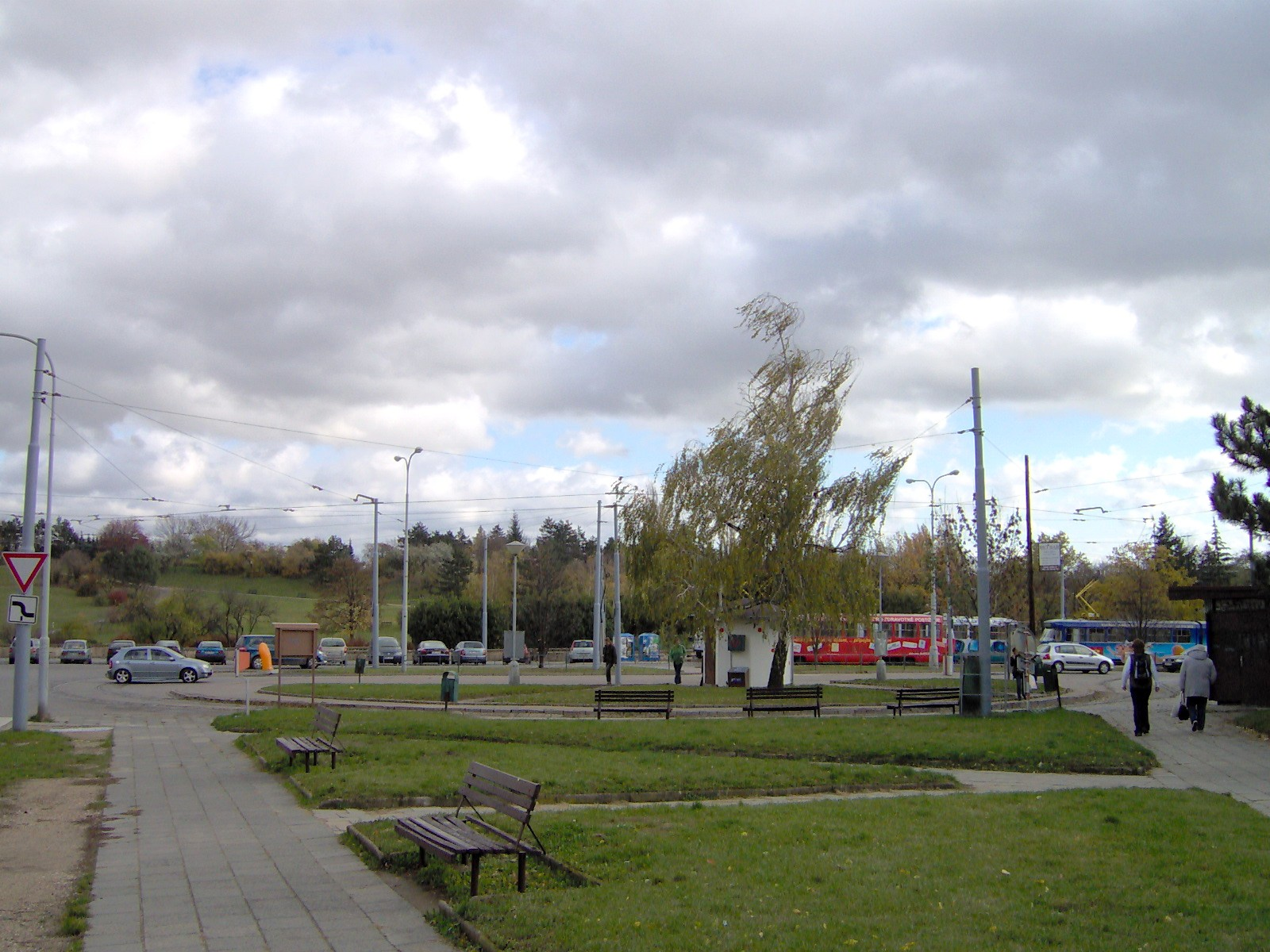 Tram loop Masarykova čtvrť, náměstí Míru in Brno